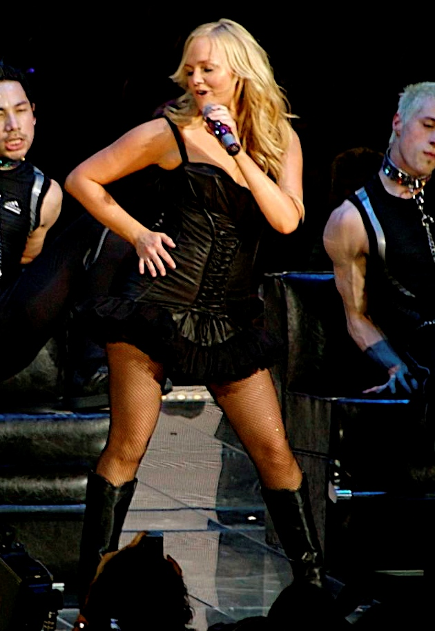 The Spice Girls performing Holler at the Air Canada Centre in Toronto, Canada